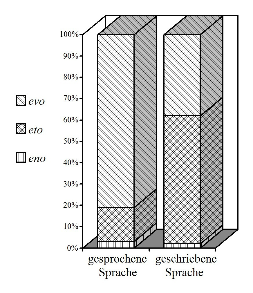 Frequency of demonstratives in Serbo-Croatian from Snježana Kordićʼs book Wörter im Grenzbereich von Lexikon und Grammatik im Serbokroatischen, Munich 2001, diagram on p. 135 or its Serbo-Croatian translation: Riječi na granici punoznačnosti, Zagreb 2002, diagram on p. 107